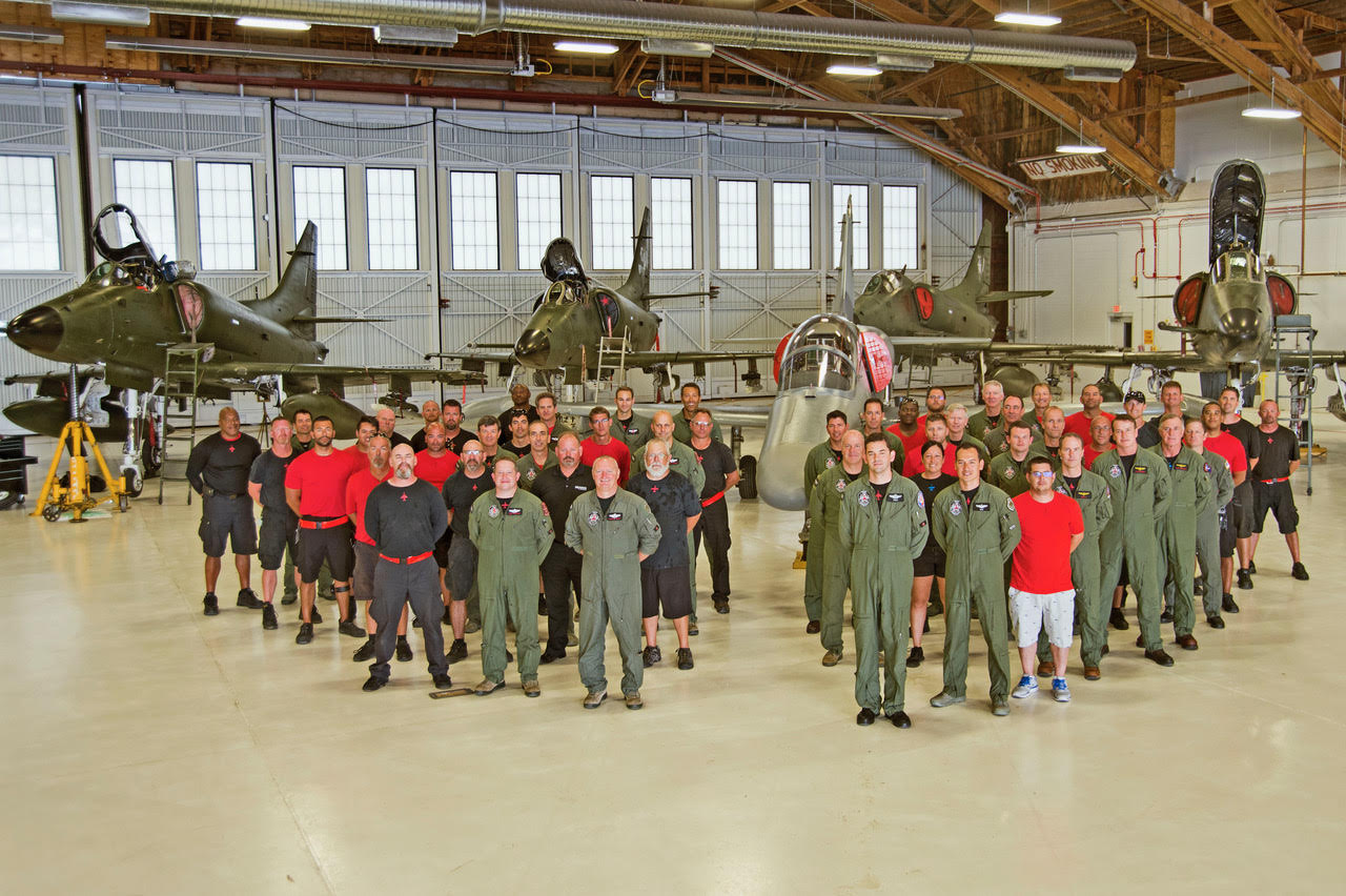 The Draken International team at Lakeland, FL headquarters. Photo by Erik Hildenbrandt.